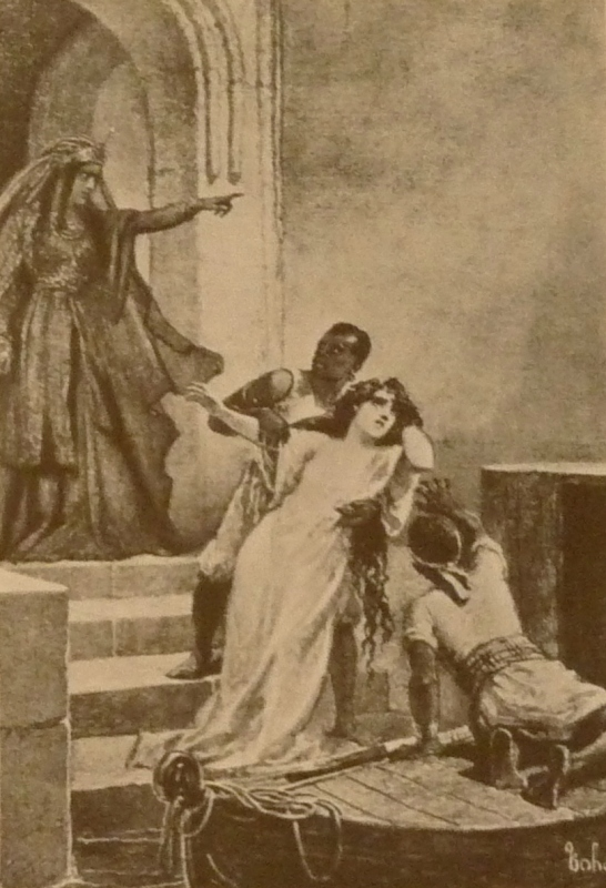 The Knight in the Panther's Skin